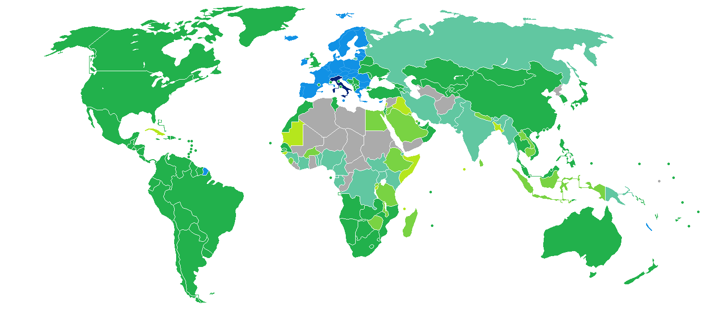 Visa requirements for Italian citizens Italy Freedom of movement Visa not required Visa on arrival eVisa Visa available both on arrival or online Visa required prior to arrival